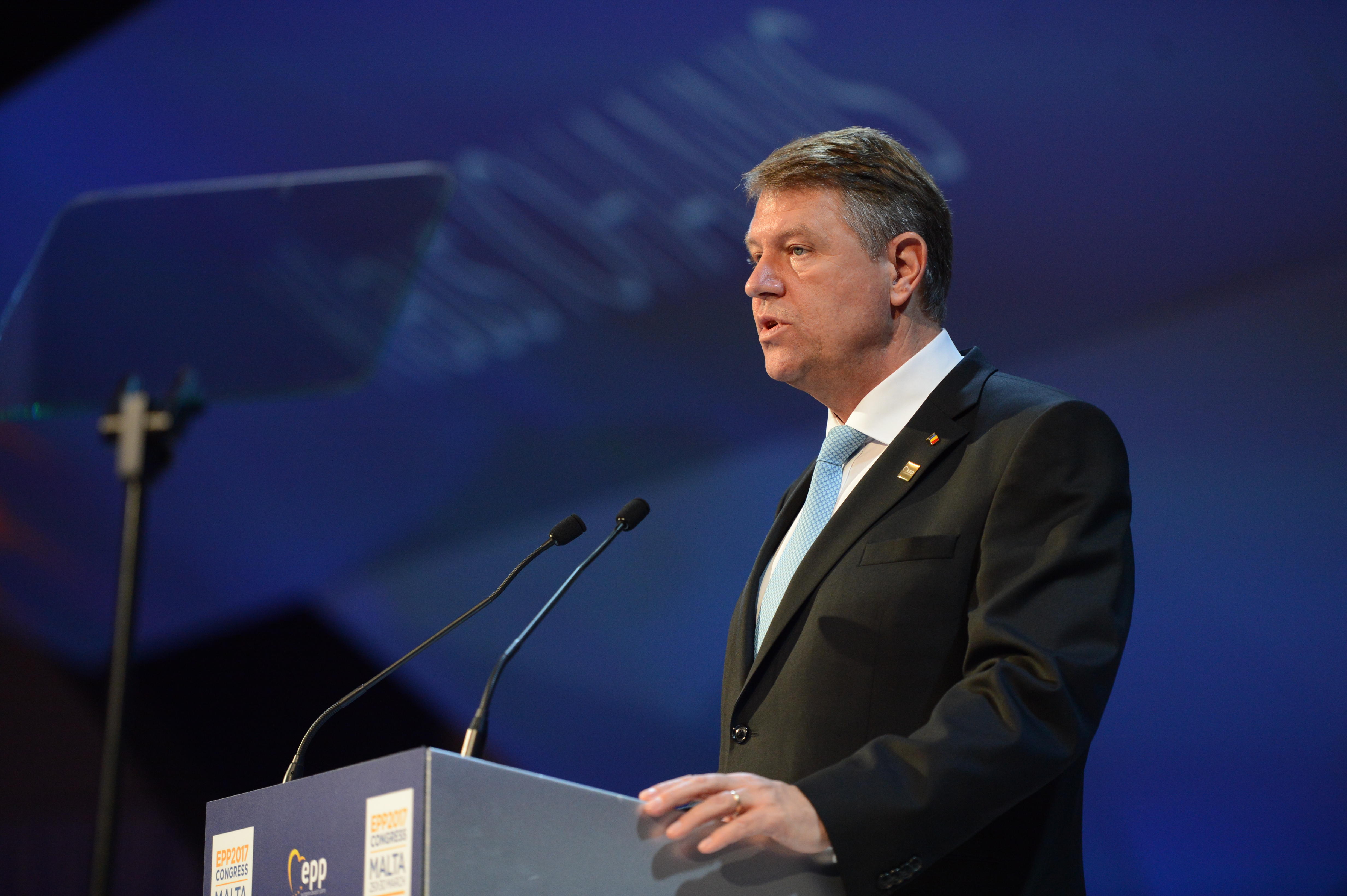 EPP Malta Congress 2017 ; 30 March